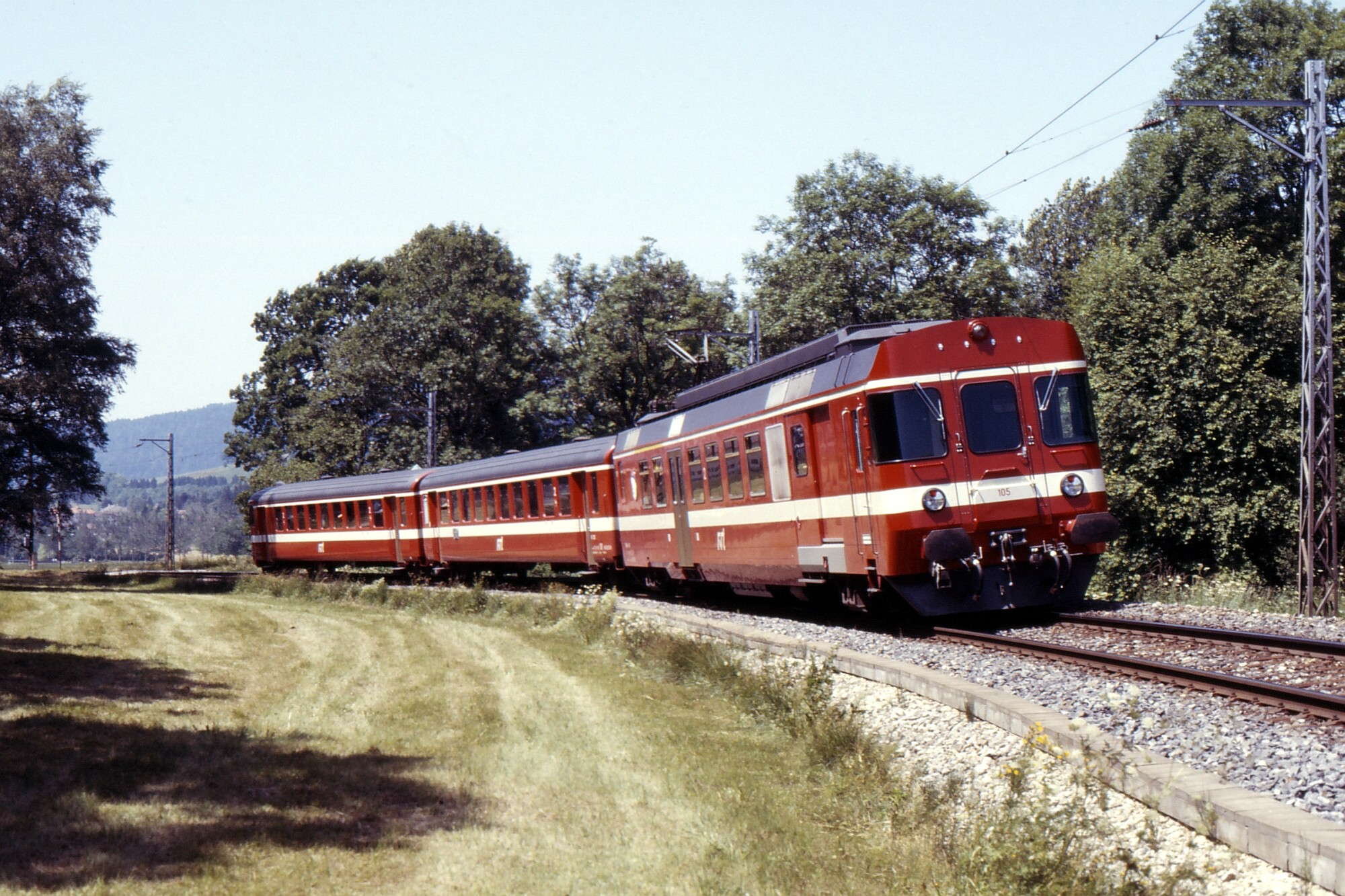 RVT Old Train RABDe 4/4 105